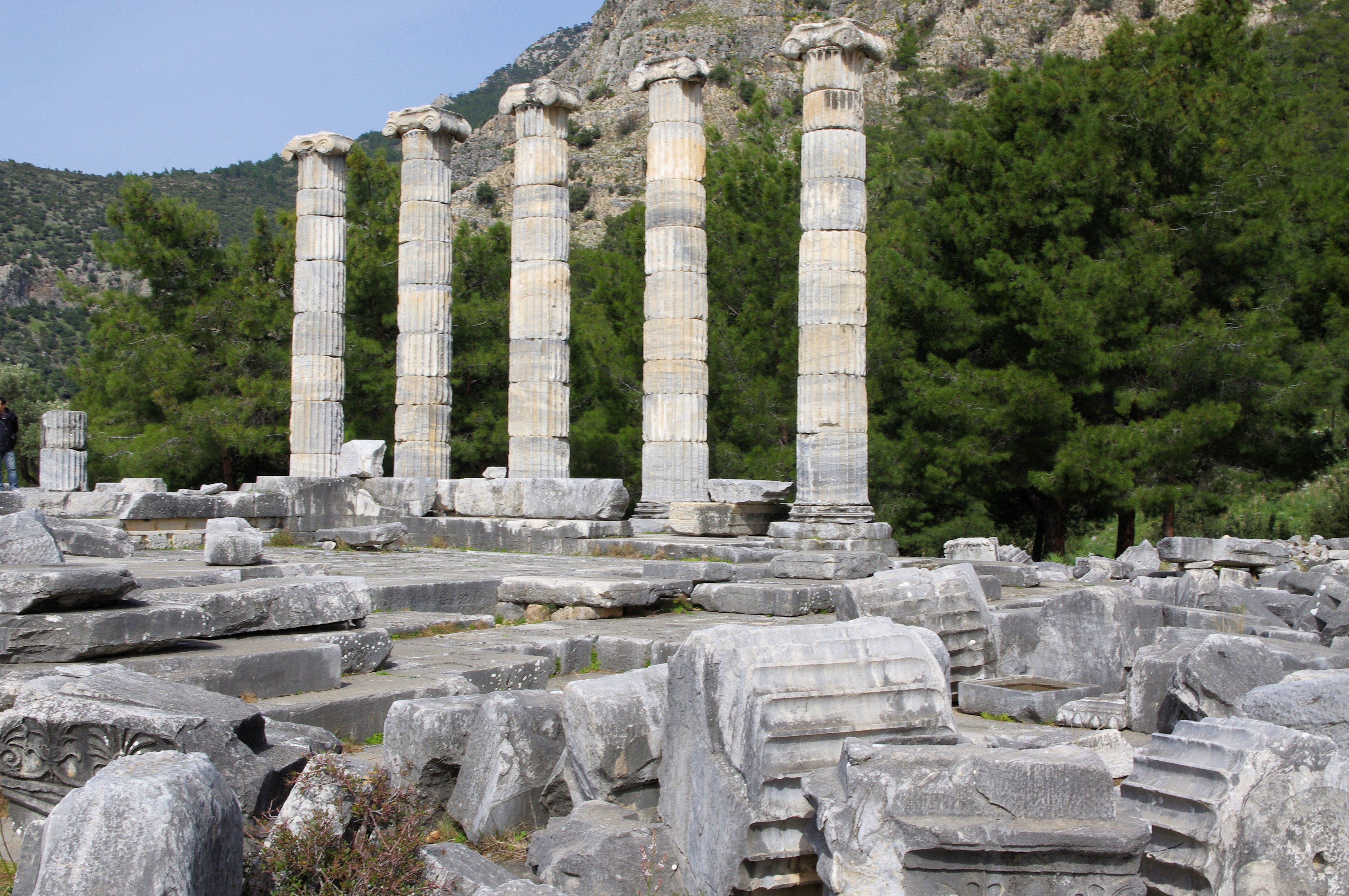 The Temple of Athena was started by Mausolus but completed by Alexander the Great, who hired the great Greek architect Pytheos to complete the design and construction. It is the largest temple in Priene. Pytheos situated the temple so that it had (and still has) a beautiful view over the valley and river below Alexander the Great invested heavily into rebuilding all of the Greek cities of the Ionic league following the defeat of the Persians. This classic Greek temple was done in the Ionic style and had no frieze around the top. Instead, a dentil design sat above the columns and architrave. The statue of Athena that was originally inside the temple was based on the famous statue by Phidias in the Parthenon of Athens.